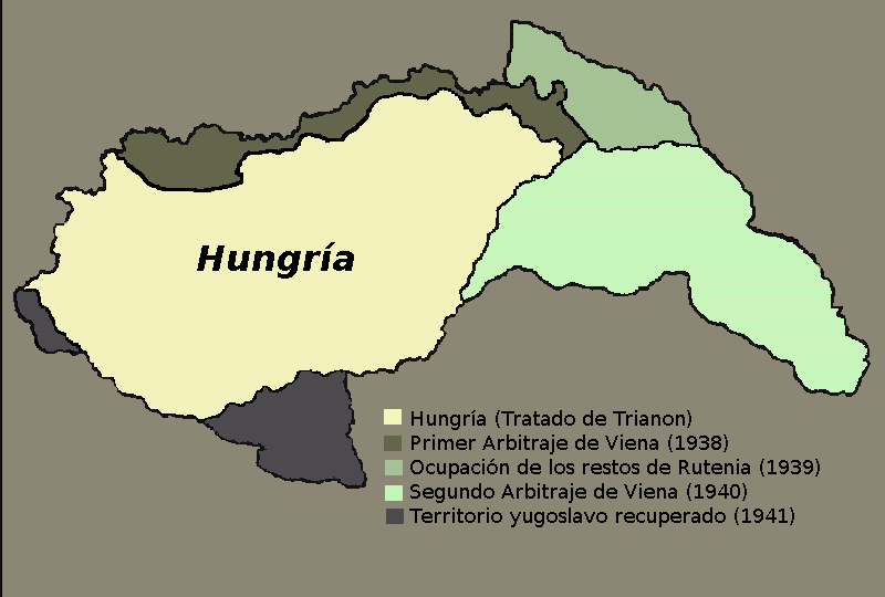 Hungary in the interwar and WWII period